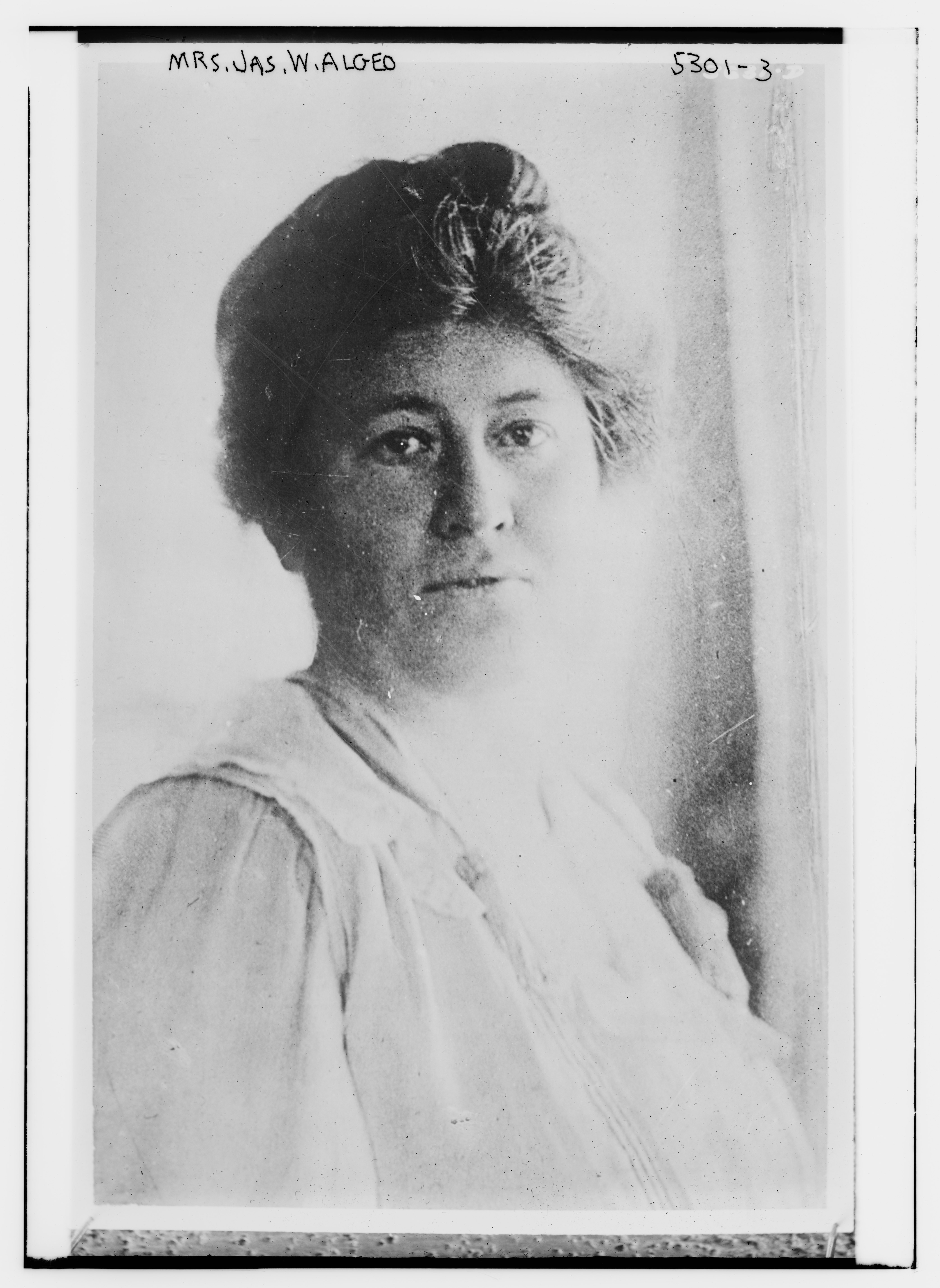 Title: Mrs. Jas. W. Algeo Abstract/medium: 1 negative : glass ; 5 x 7 in. or smaller.